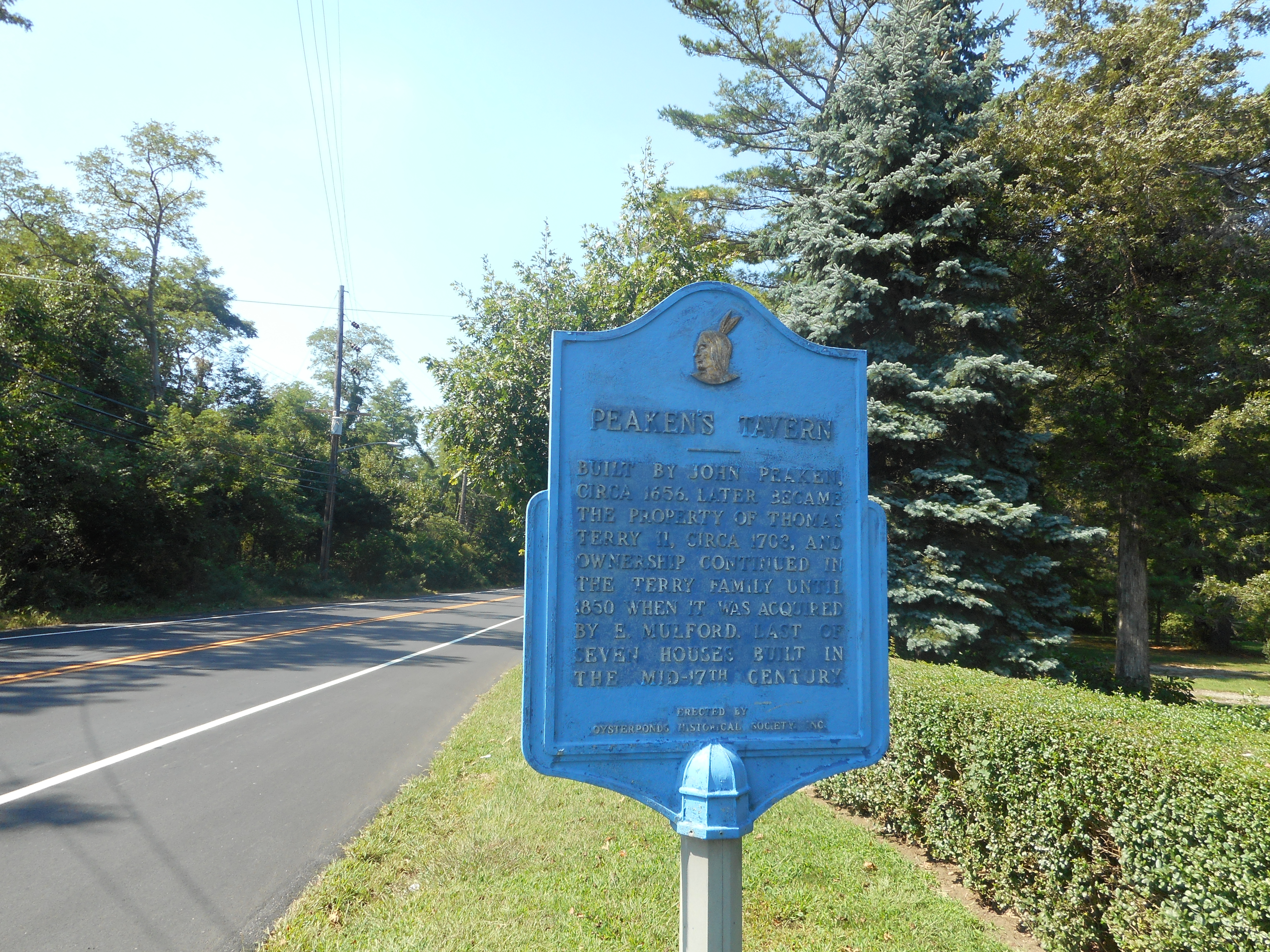 Oysterponds Historical Society Historical Marker for the The 1656-built Peaken's Tavern, now known as the Terry-Mulford House on New York State Route 25, in Orient, New York. Listed on the National Register of Historic Places.